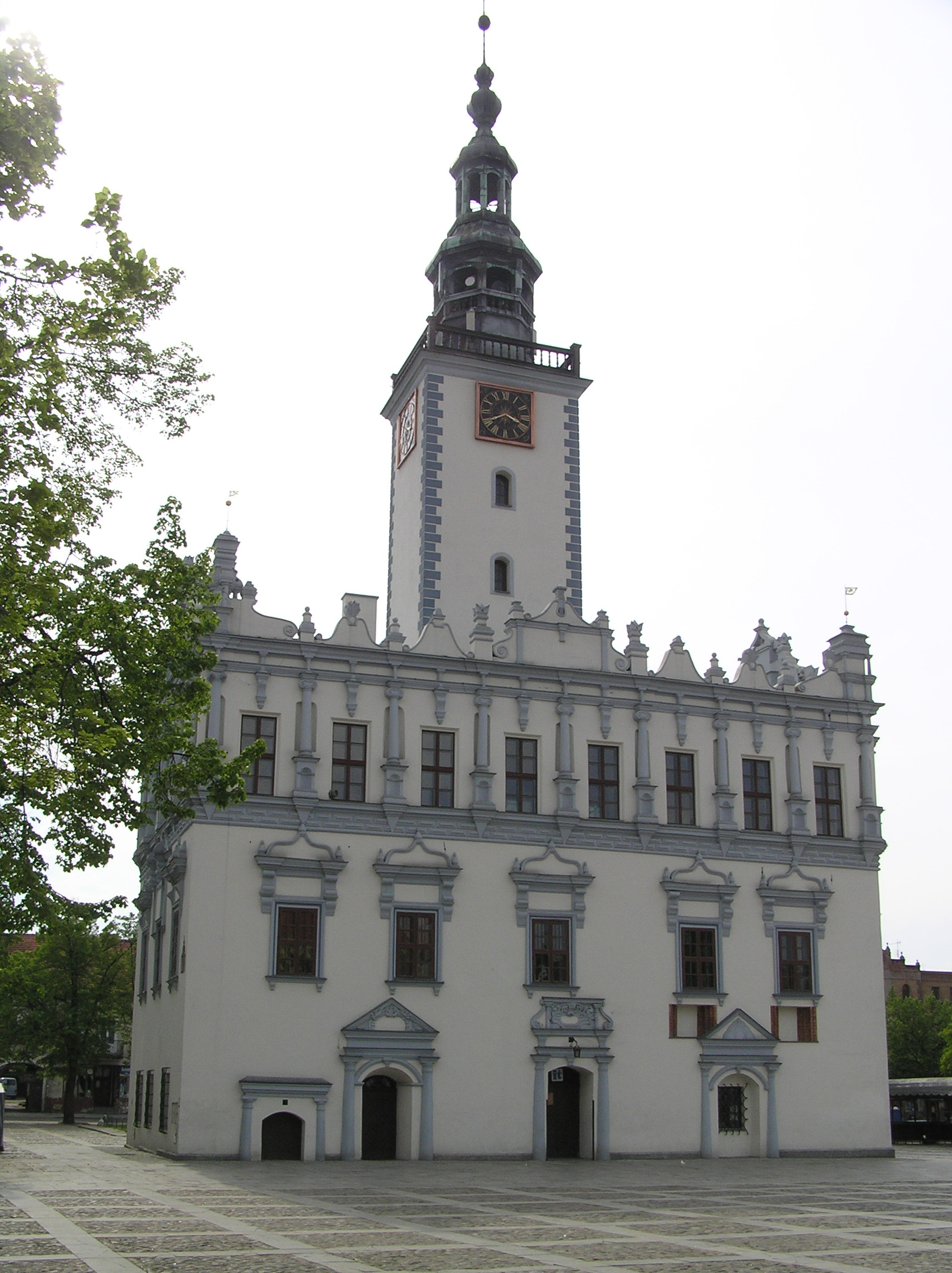 Chełmno, town hall